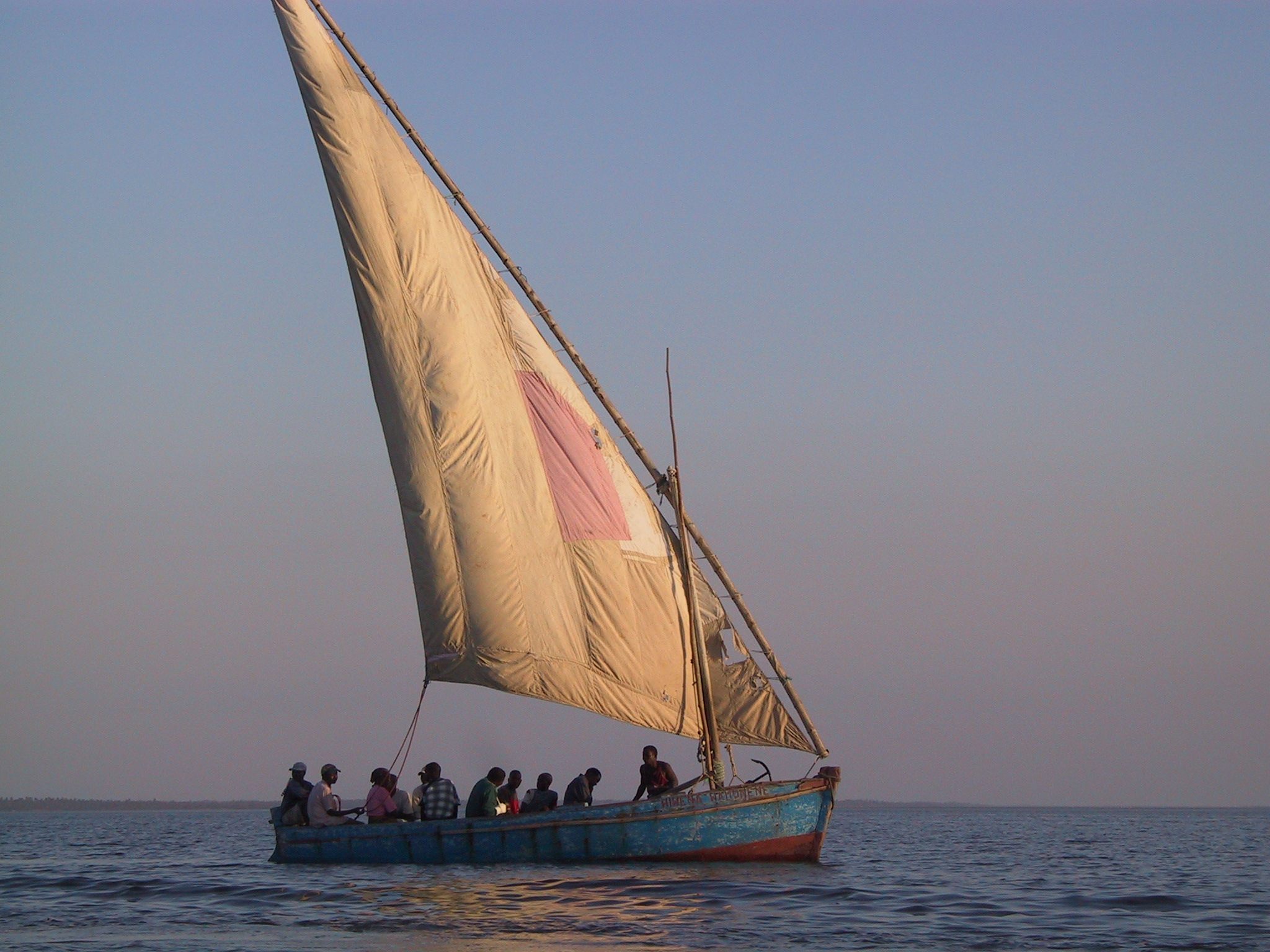 Dhow ferrying passengers from Inhambane to Maxixe in Mozambique. It is using a lateen sail, with the lateen sail currently in the "bad tack" (with the sail pressed against the mast.) Copyright © 2006 by Steven G. Johnson and donated to Wikipedia under the GFDL.